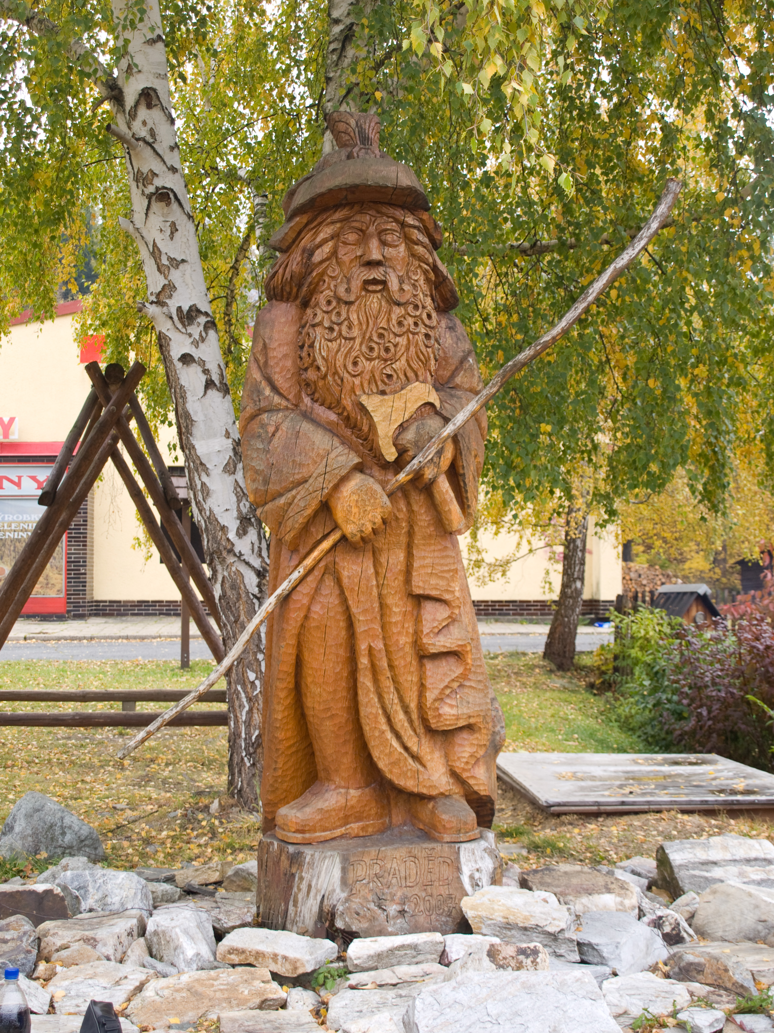 Sclupture of Praděd, Malá Morávka, Bruntál District, Czech Republic